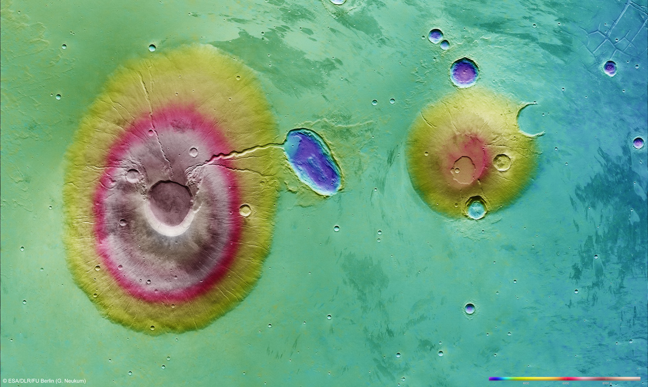 An elevation map of Ceraunius Tholus and Uranius Tholus on Mars based on data from the HRSC instrument aboard Mars Express.